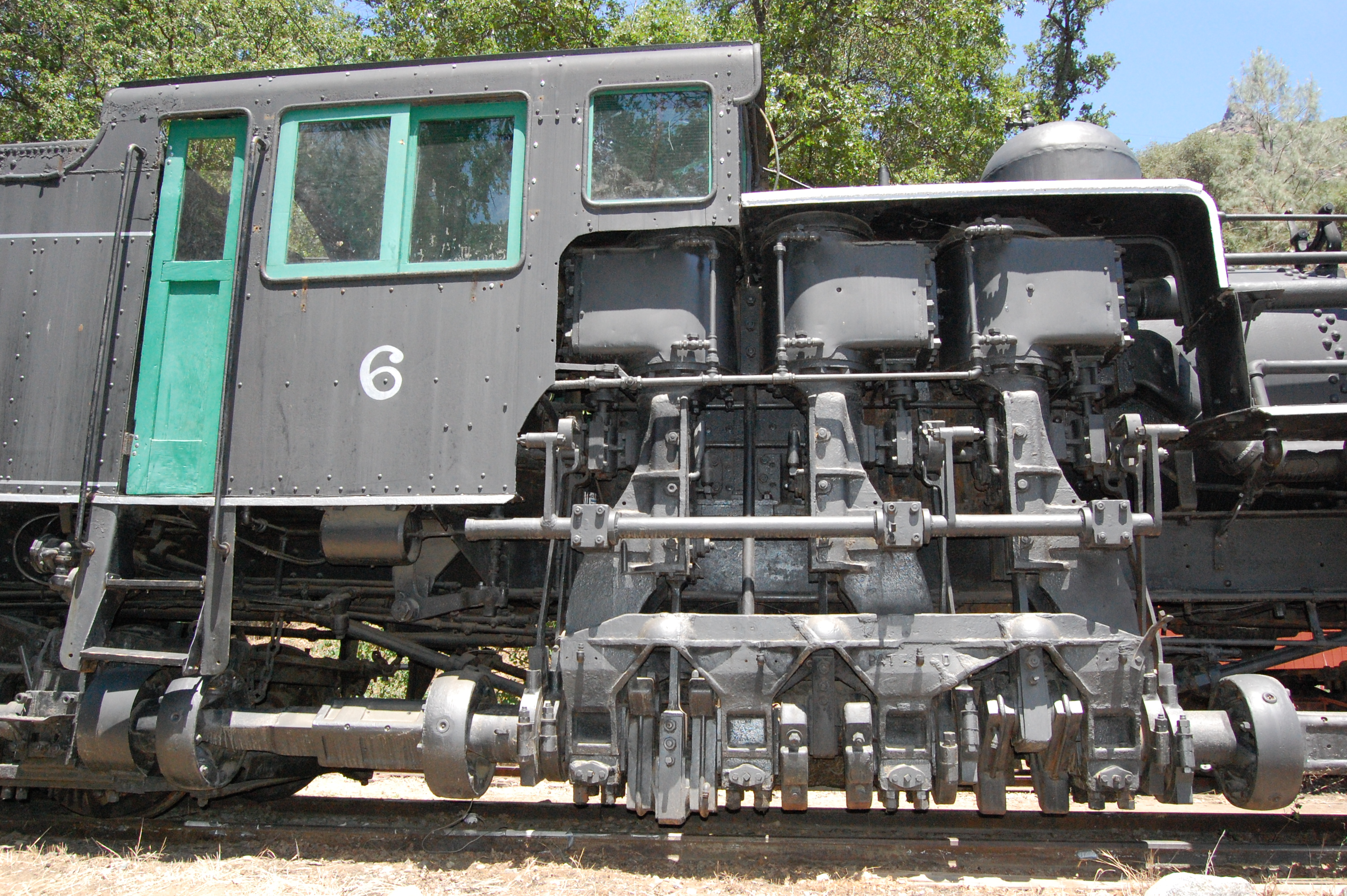 The vertical pistons of Hetch Hetchy RR Engine No. 6 in El Portal, California.